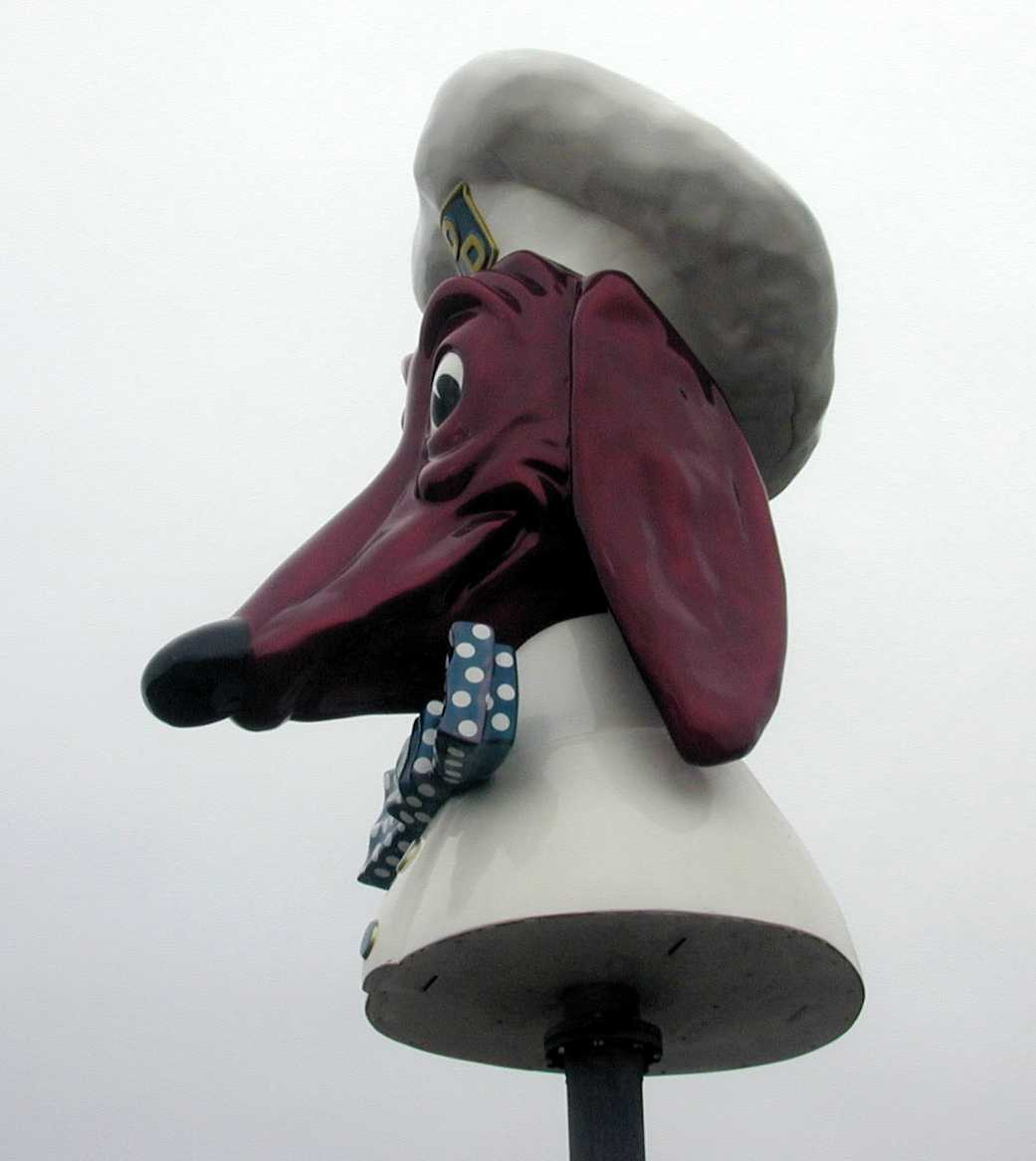 The logo of the Doggie Diner chain, as seen at the Carousel Restaurant in San Francisco, near the San Francisco Zoo.